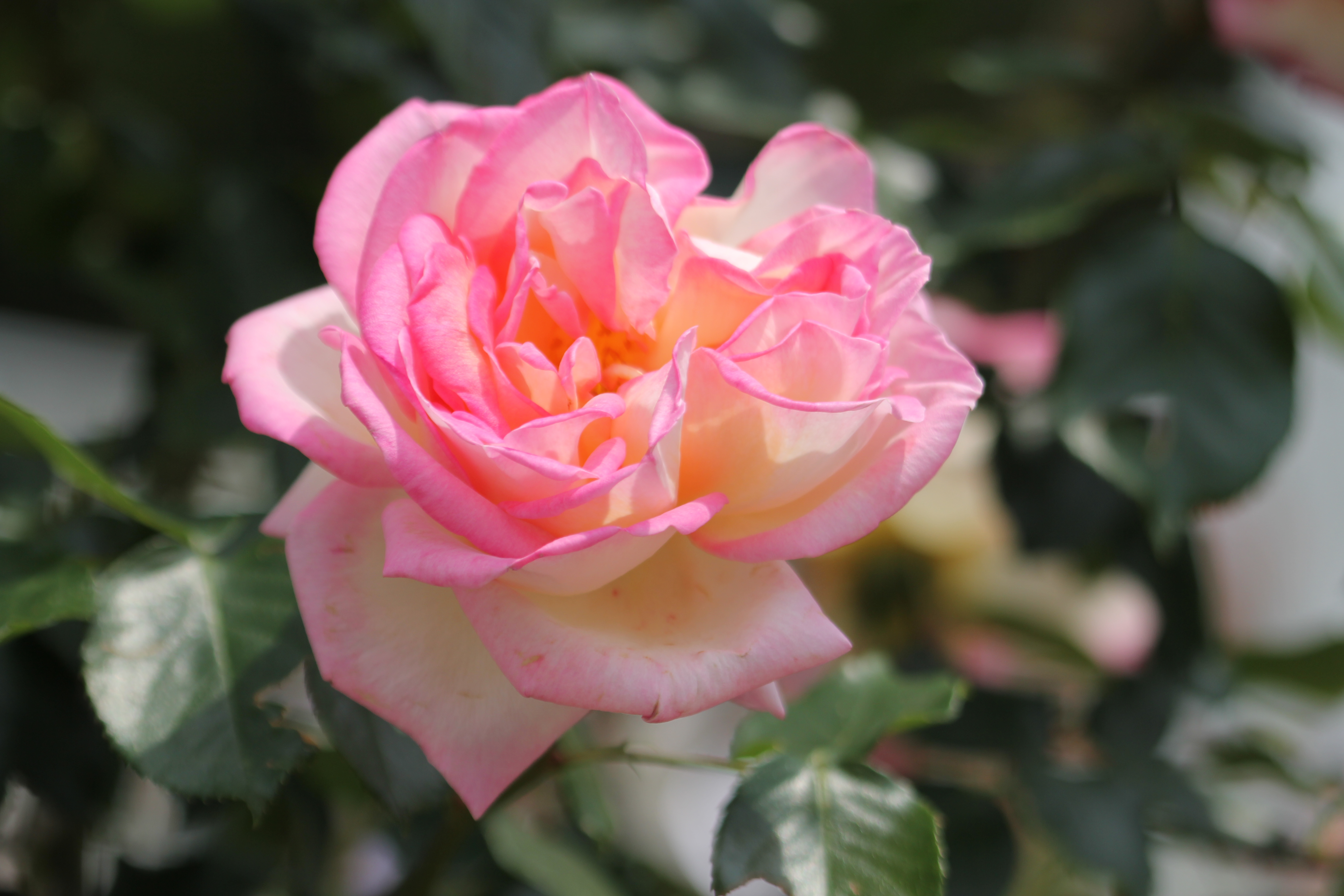 Princess de Monaco, rose